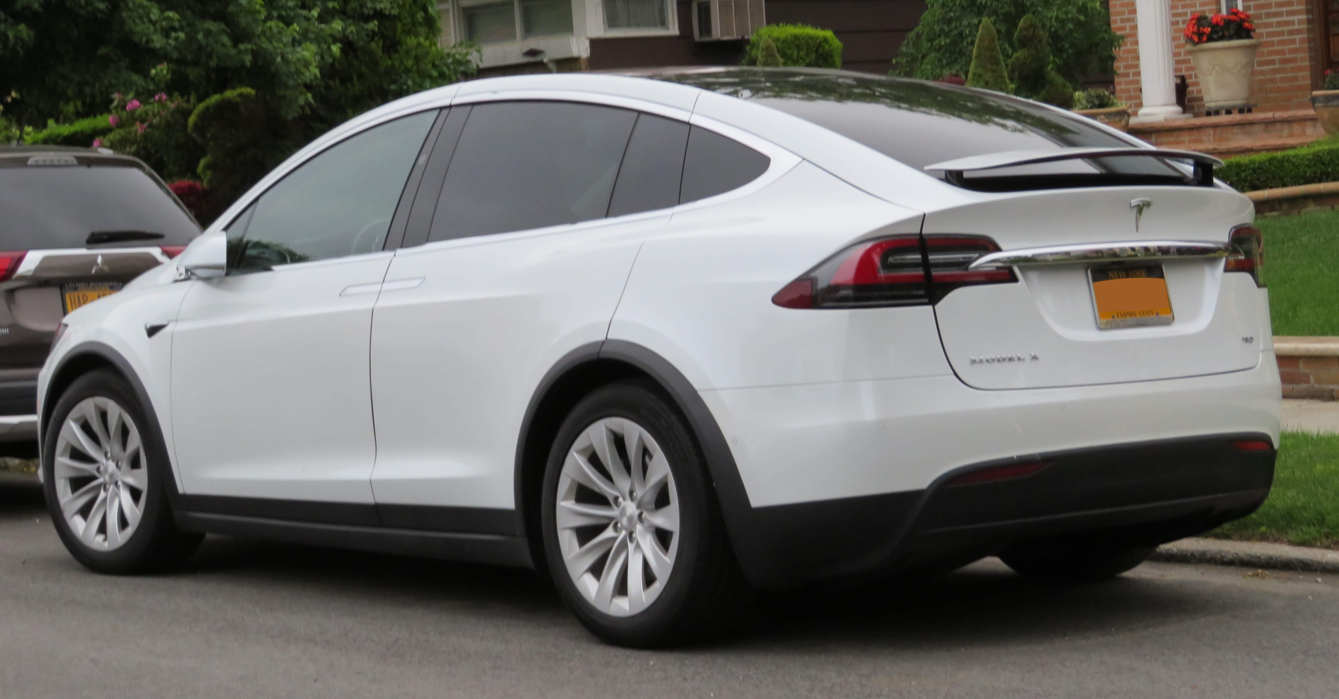 Photographed in Queens, New York